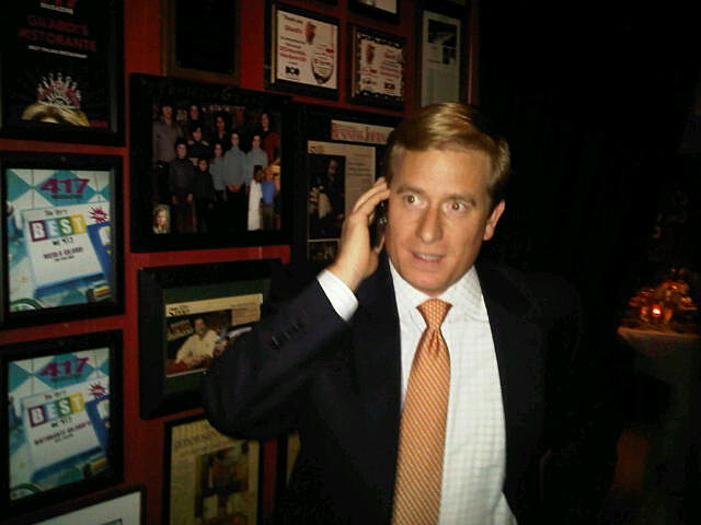 Andy Blunt on Election Night, November 2, 2010, in Springfield, Missouri, before his father, Roy Blunt, won his U.S. Senate campaign.